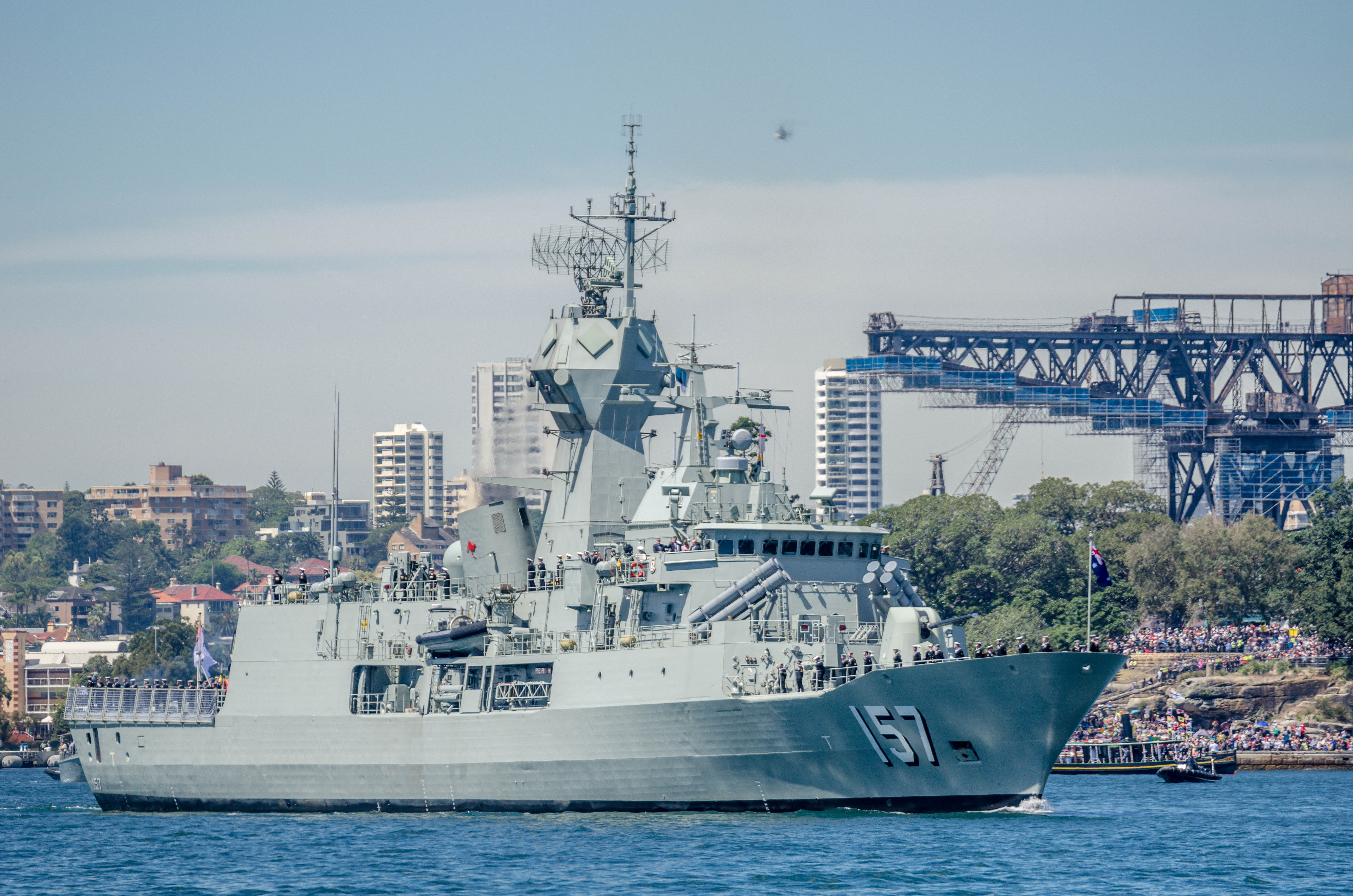 HMAS Perth (FFH 157) near Garden Island Naval Base